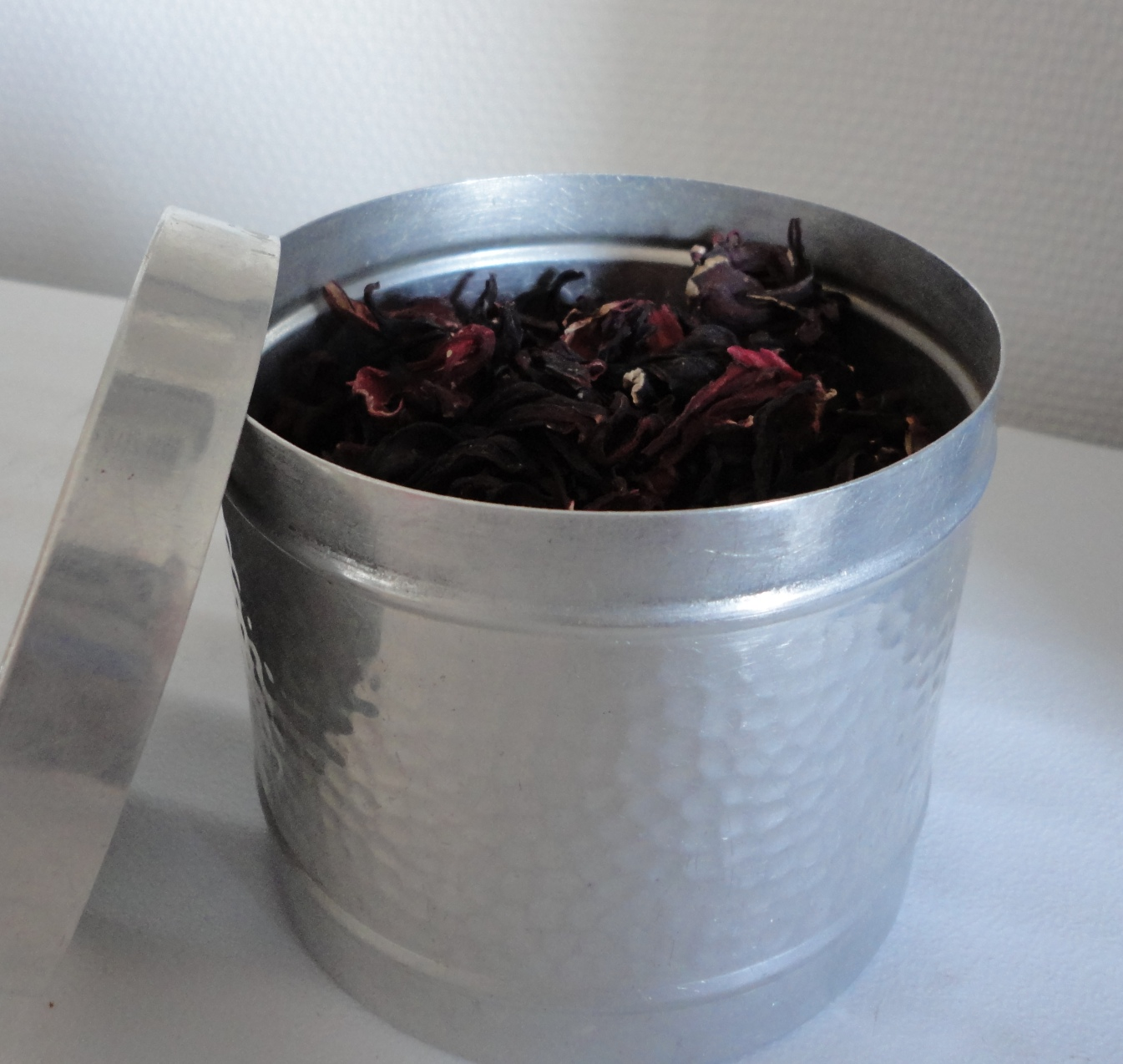 A tin with dried hibiscus flowers for making Hibiscus tea.